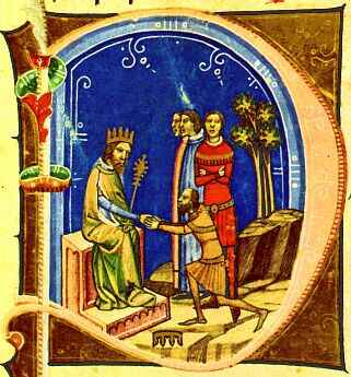 Solomon of Hungary